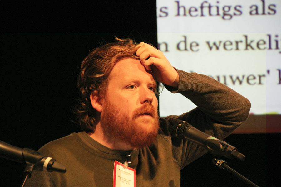 Karel Smouter